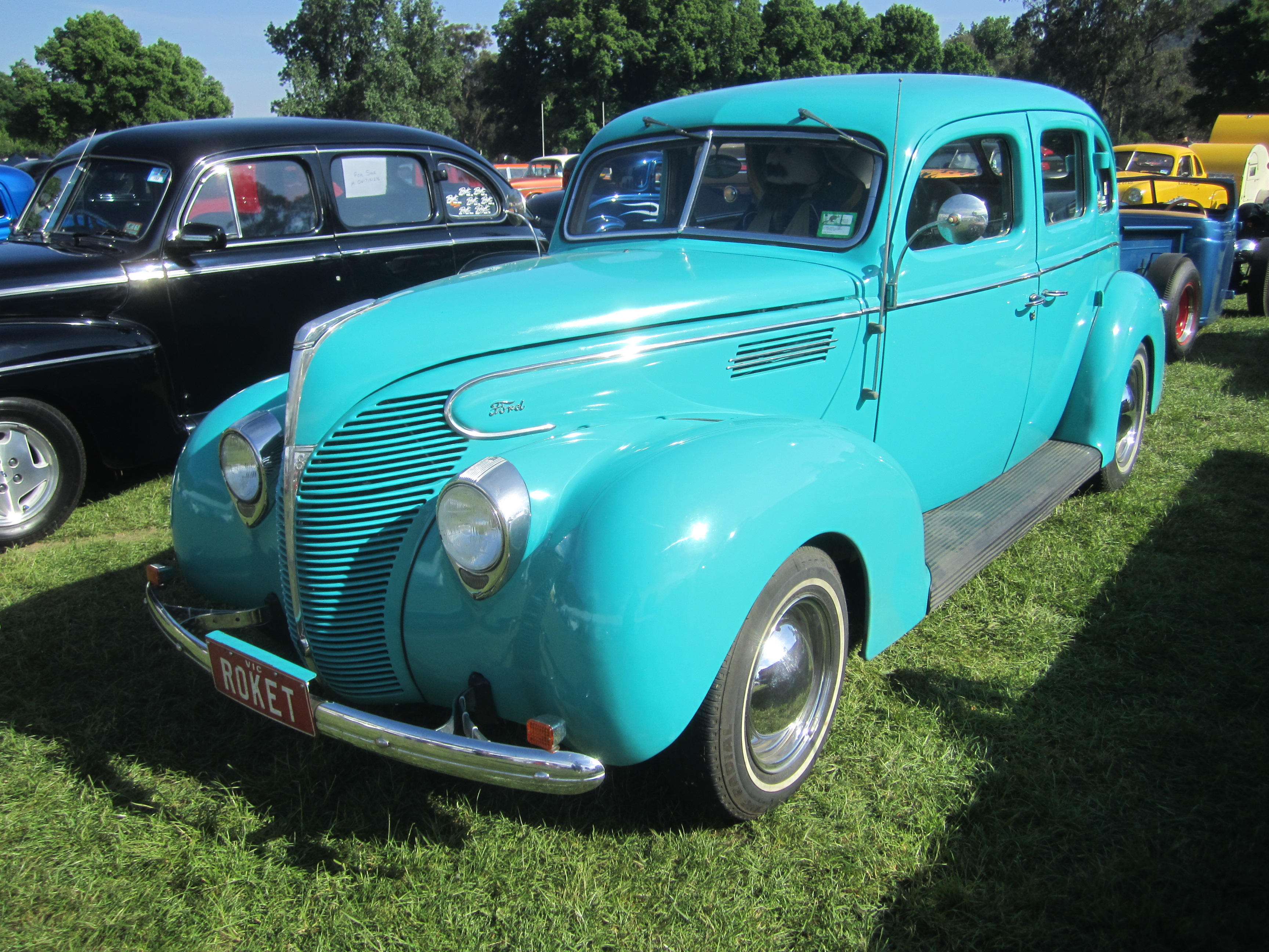 Available in Standard or Deluxe. Deluxe got low pointed grille and Standard got a grille similar to the 1938 Deluxes heart shaped grille Engines; 136 or 221 cu in V8s